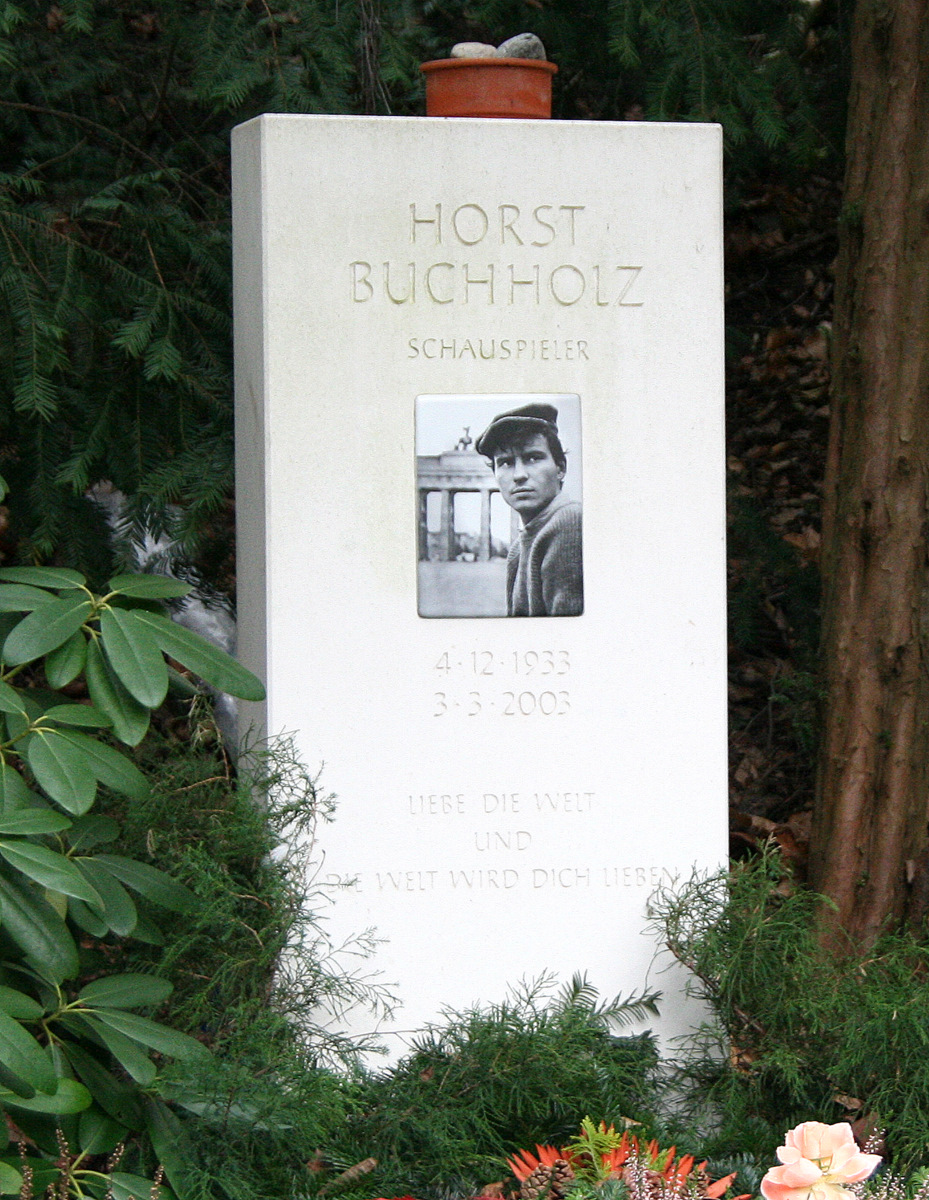 Gravestone of Horst Werner Buchholz (1933-2003) — "Love the World, and the World Will Love You Back"